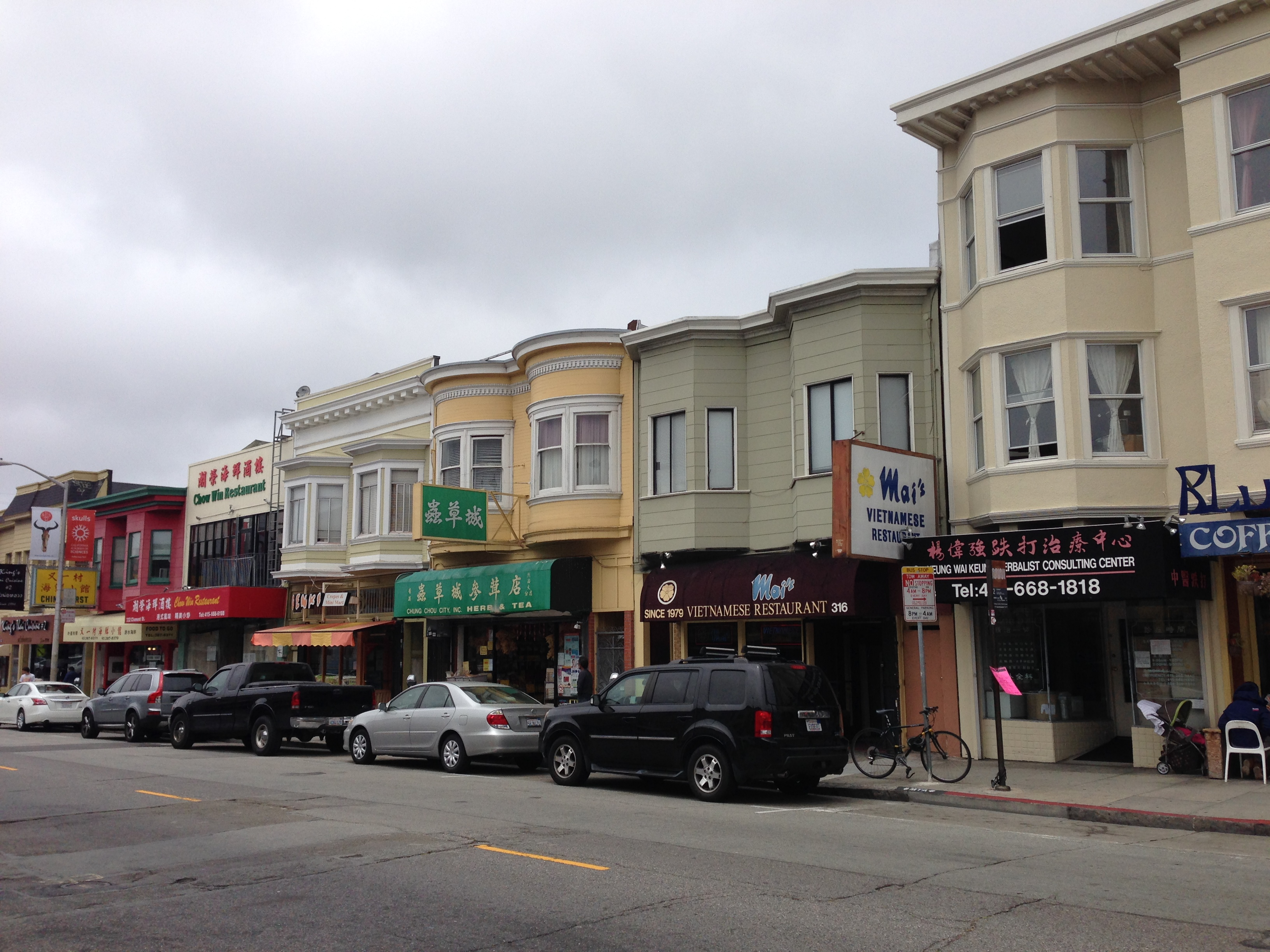 Looking west toward the north side of Clement Street from a vantage point in front of Burma Superstar restaurant (near Clement St and 4th Ave, San Francisco).